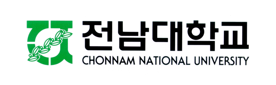 Sygnature of Chonnam National University